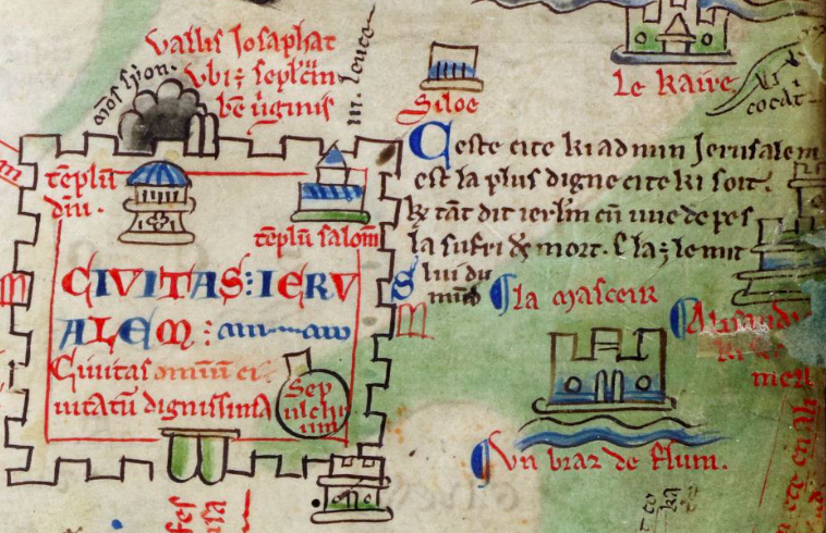 Map of Jerusalem